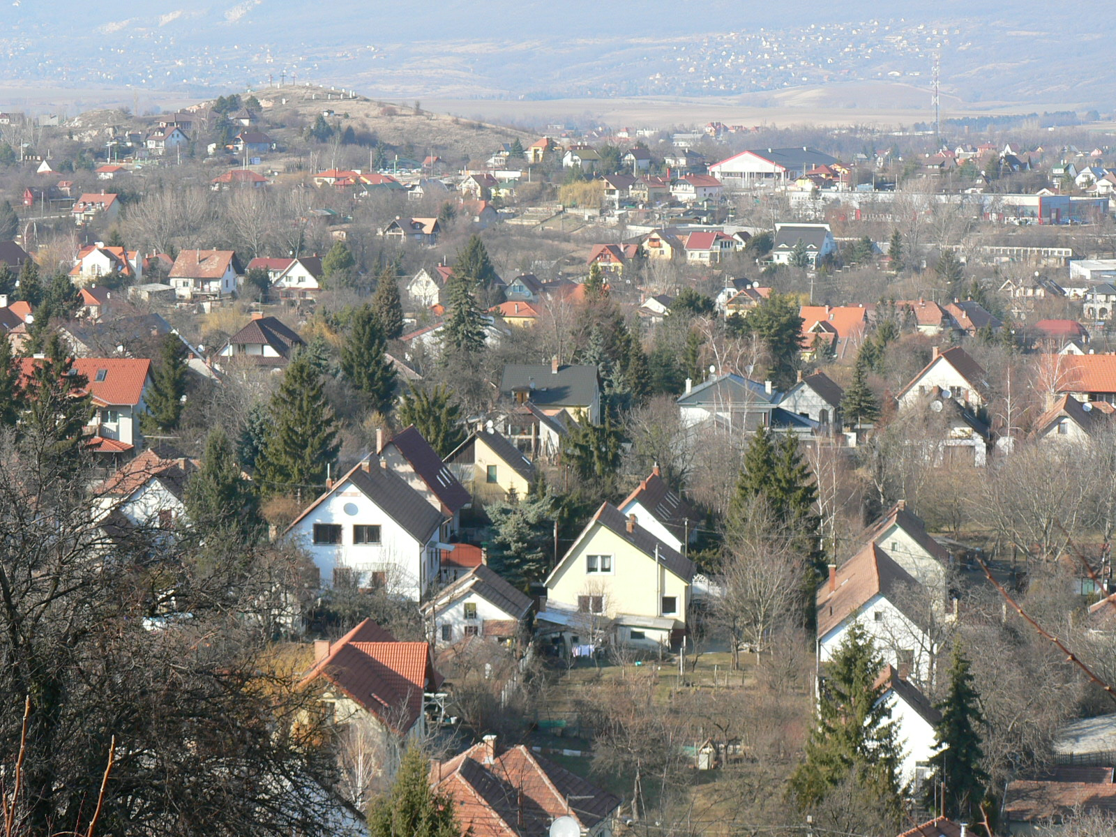 Kilátás a Szél-hegy felé a Panoráma utcából